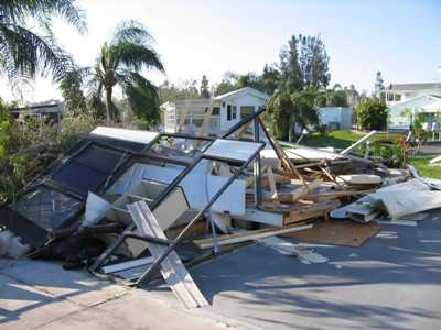 A mobile home destroyed by Hurricane Wilma in Lee County, Florida